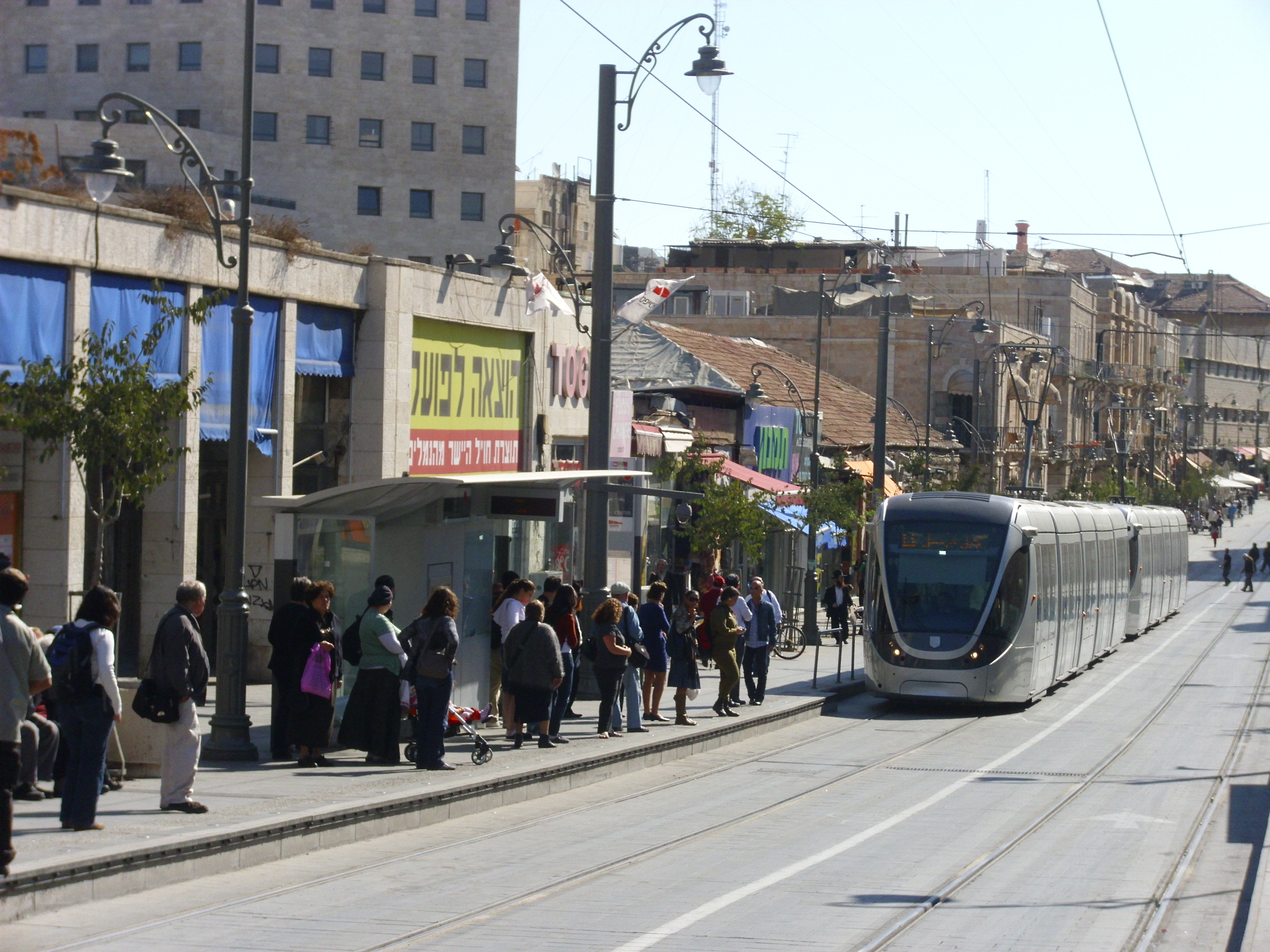 Light Rail on Jaffa Rd.